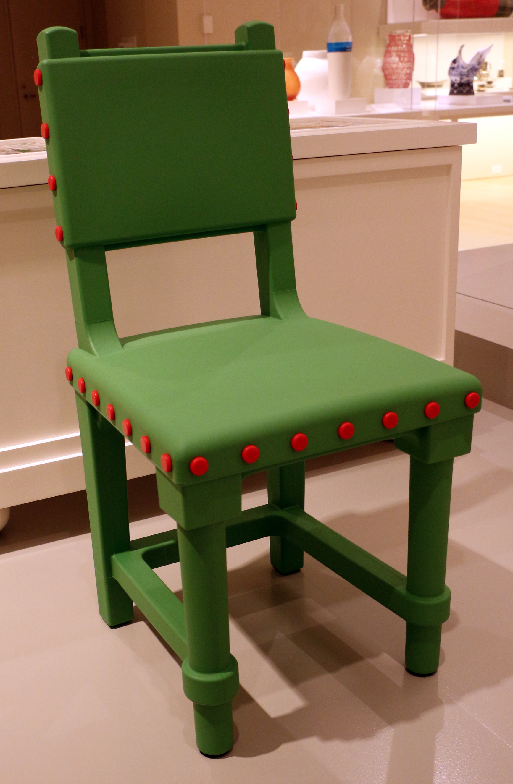 Furniture in the Indianapolis Museum of Art